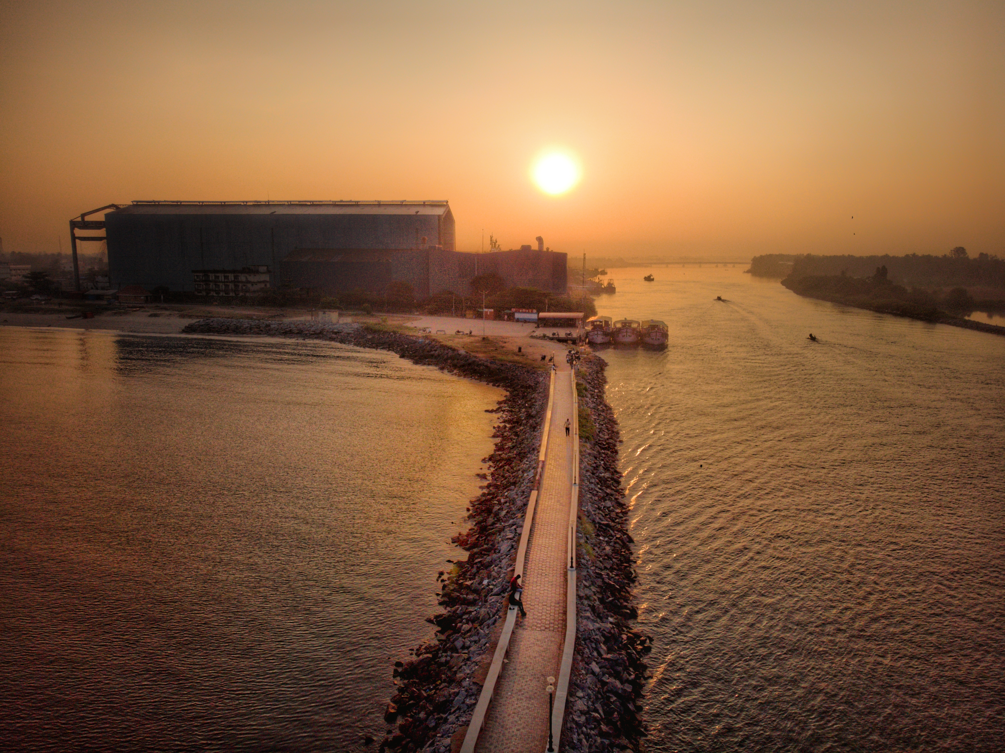 Aerial shot of sunrise at Malpe Beach.